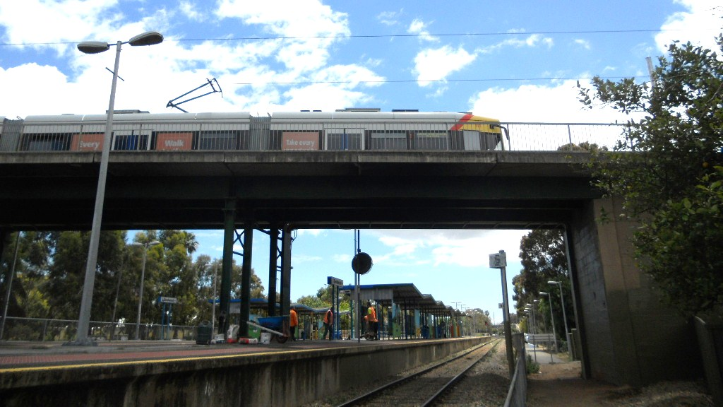 Goodwood railway station and tram bridge